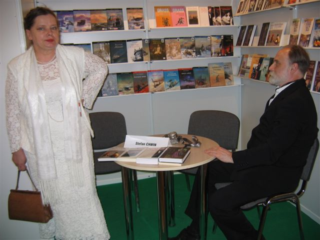 Stefan Chwin (b. 1949), Polish writer, with his wife Krystyna Lars